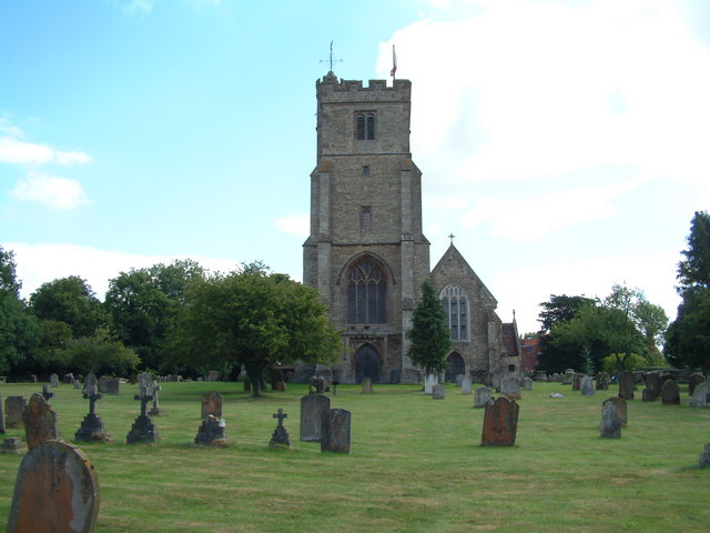 Biddenden Church. Biddenden Church viewed from the Churchyard